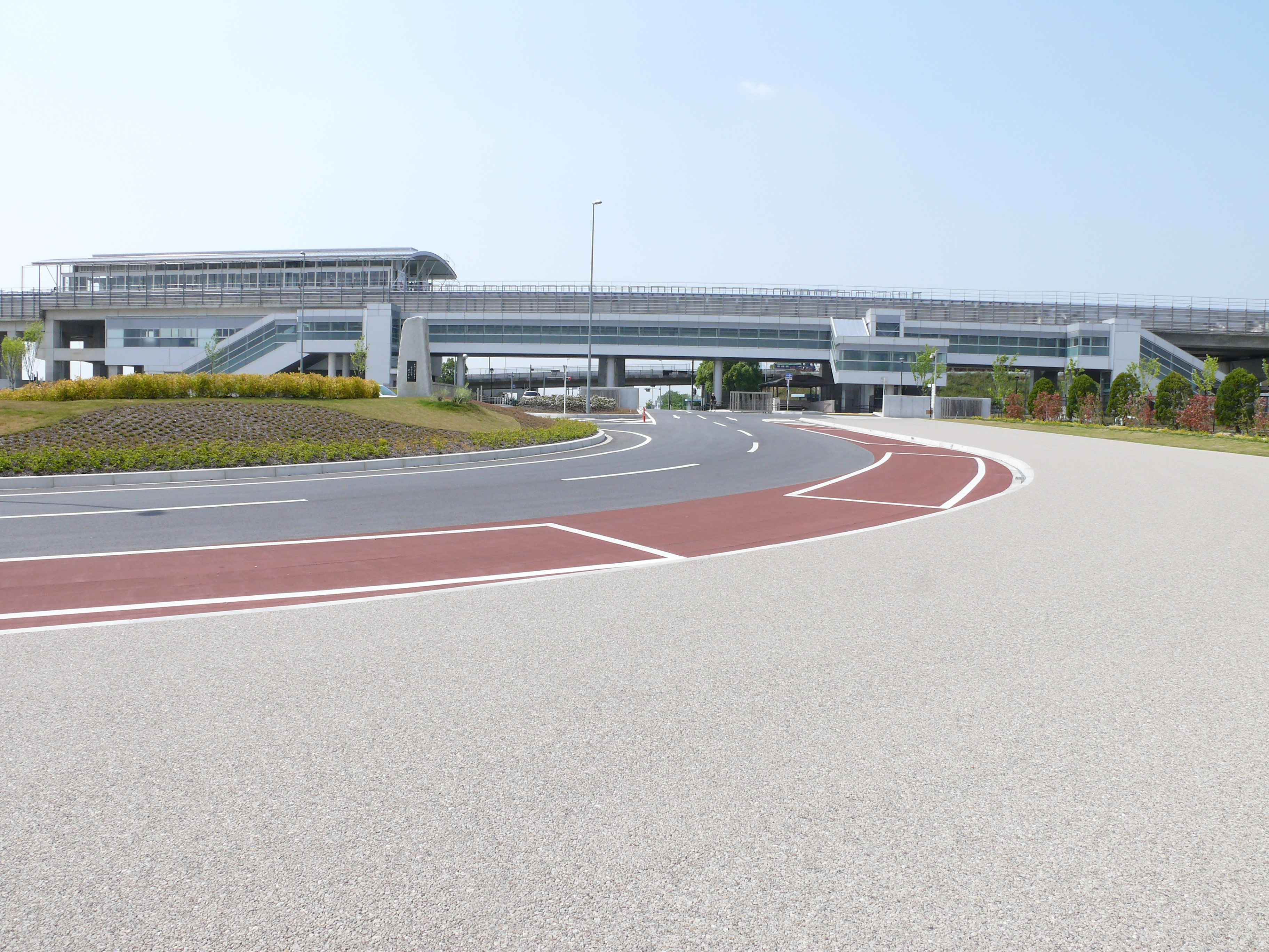 Linimo of Ai･Chikyuhaku Kinen Koen Station.